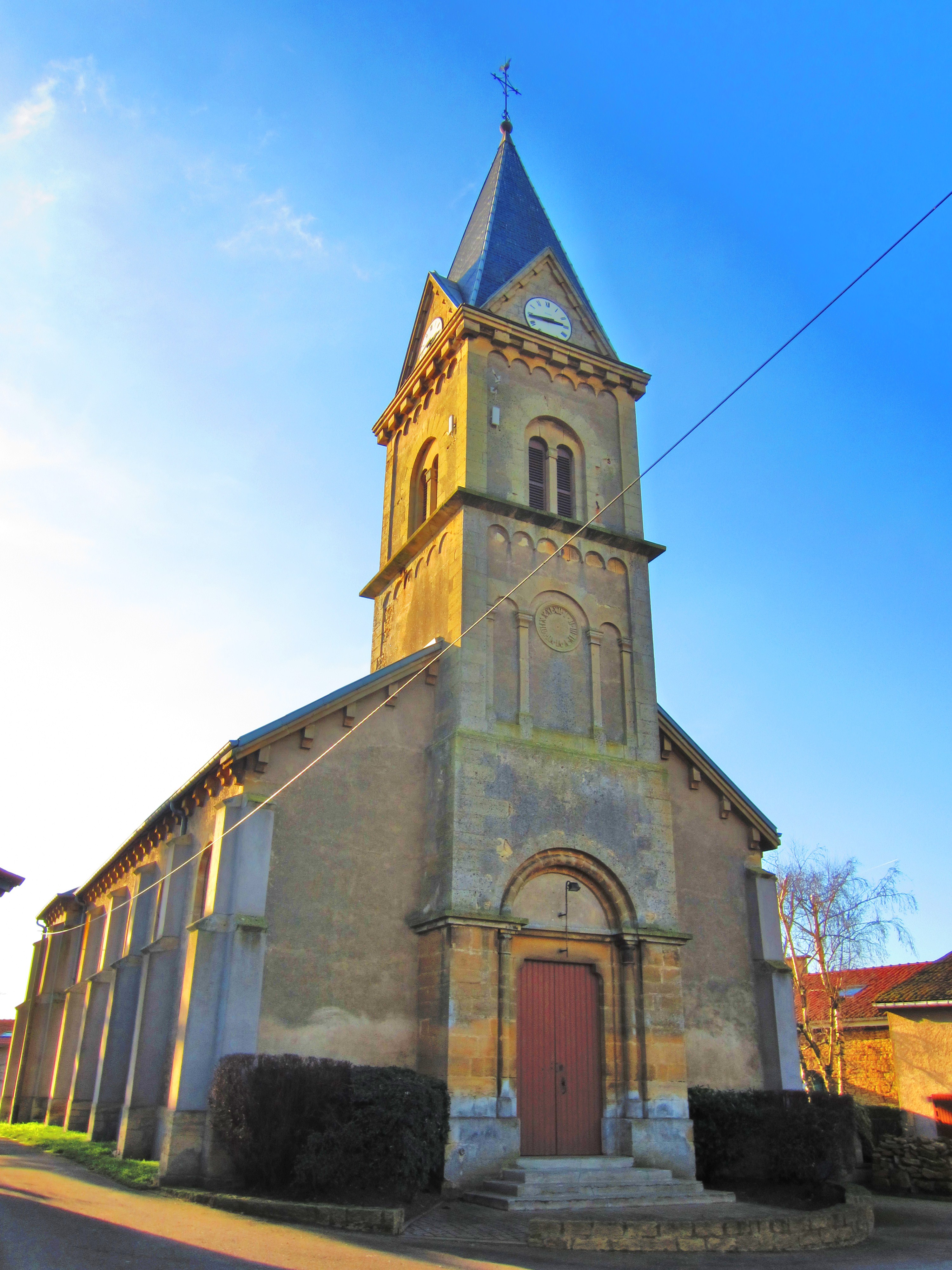 Bechamps church